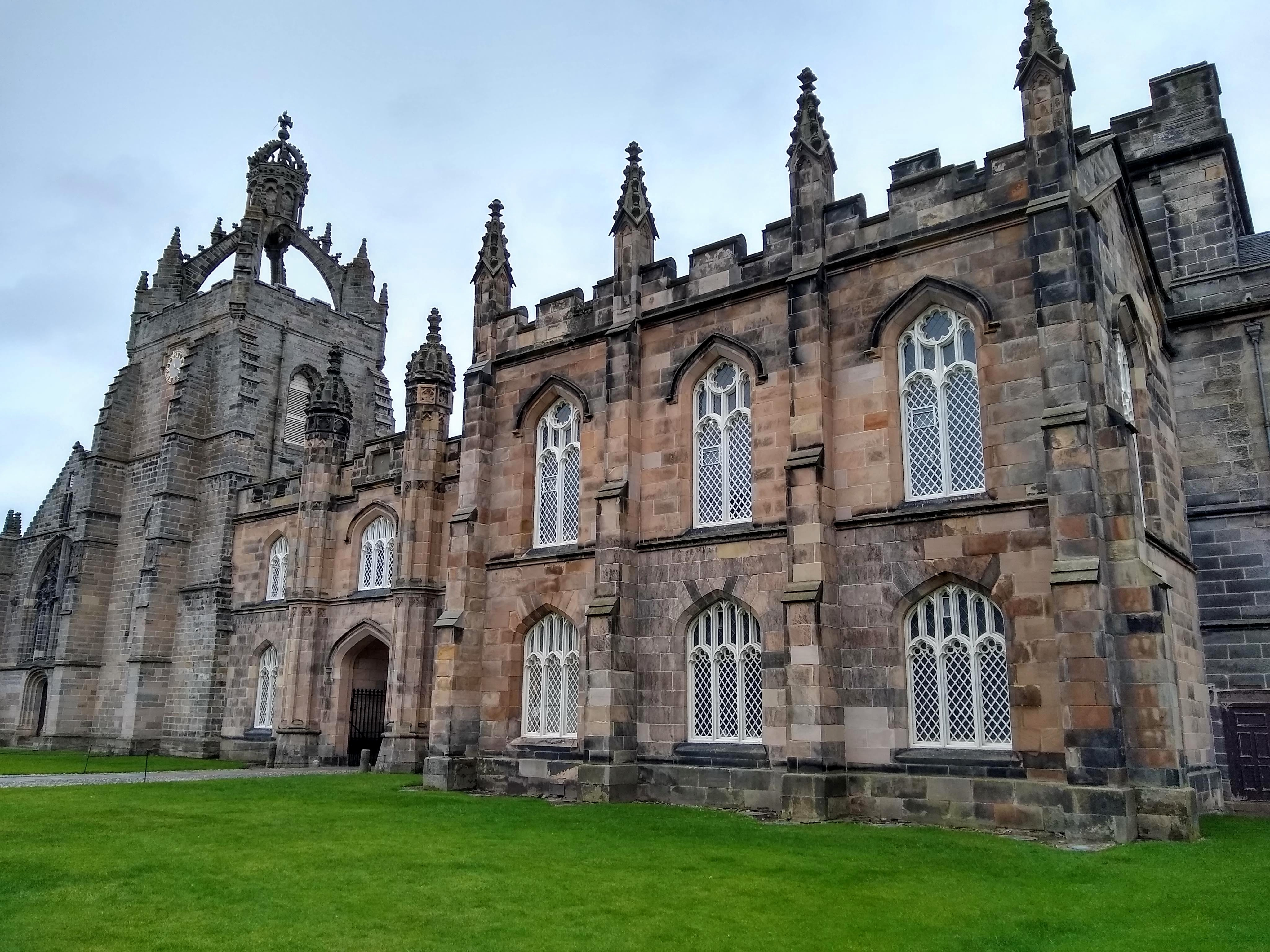 King's College Chapel at the University of Aberdeen. Located in Aberdeen, Scotland.